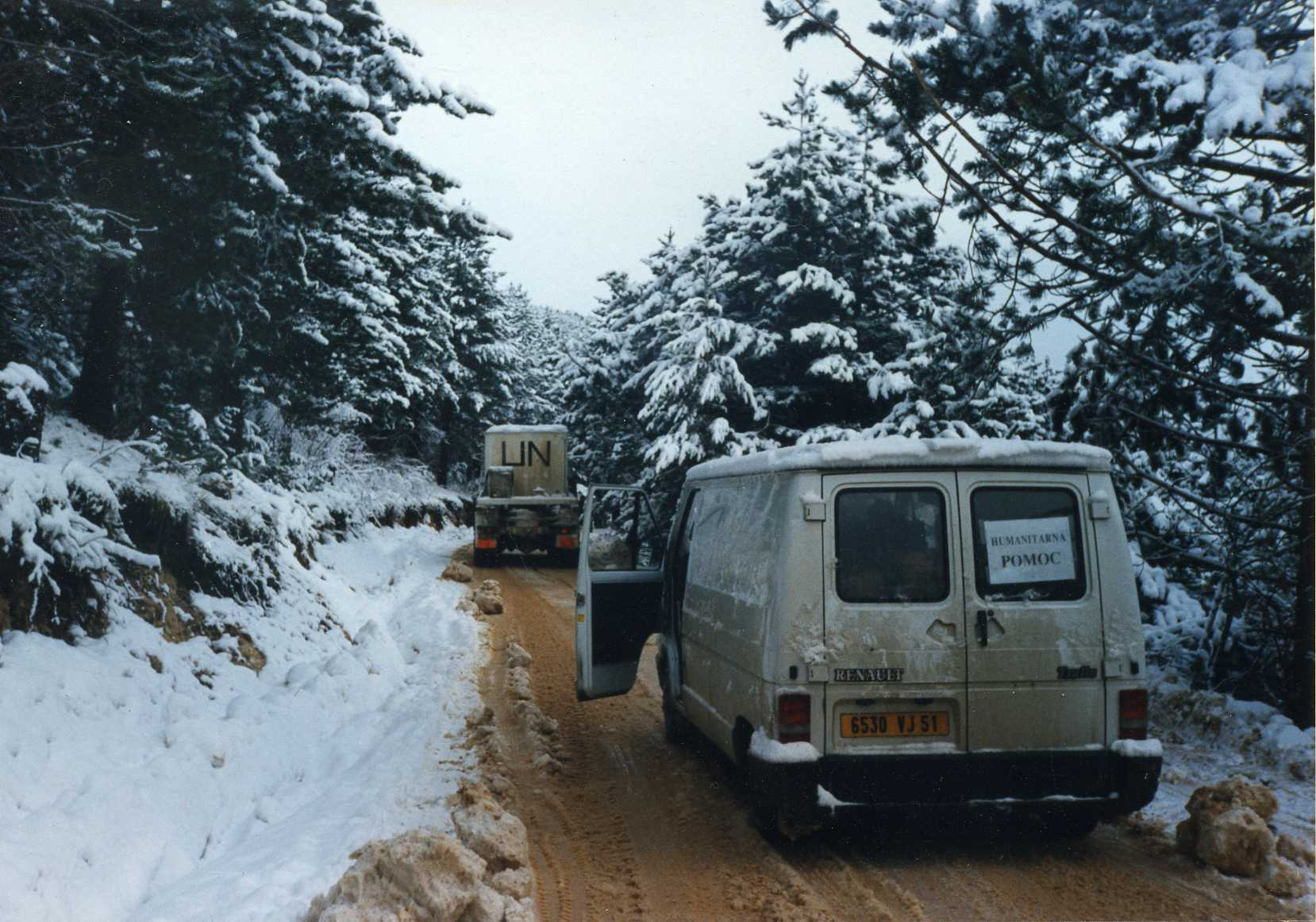 Humanitarian convoy on the Diamond Road in Middle Bosnia, winter 1993